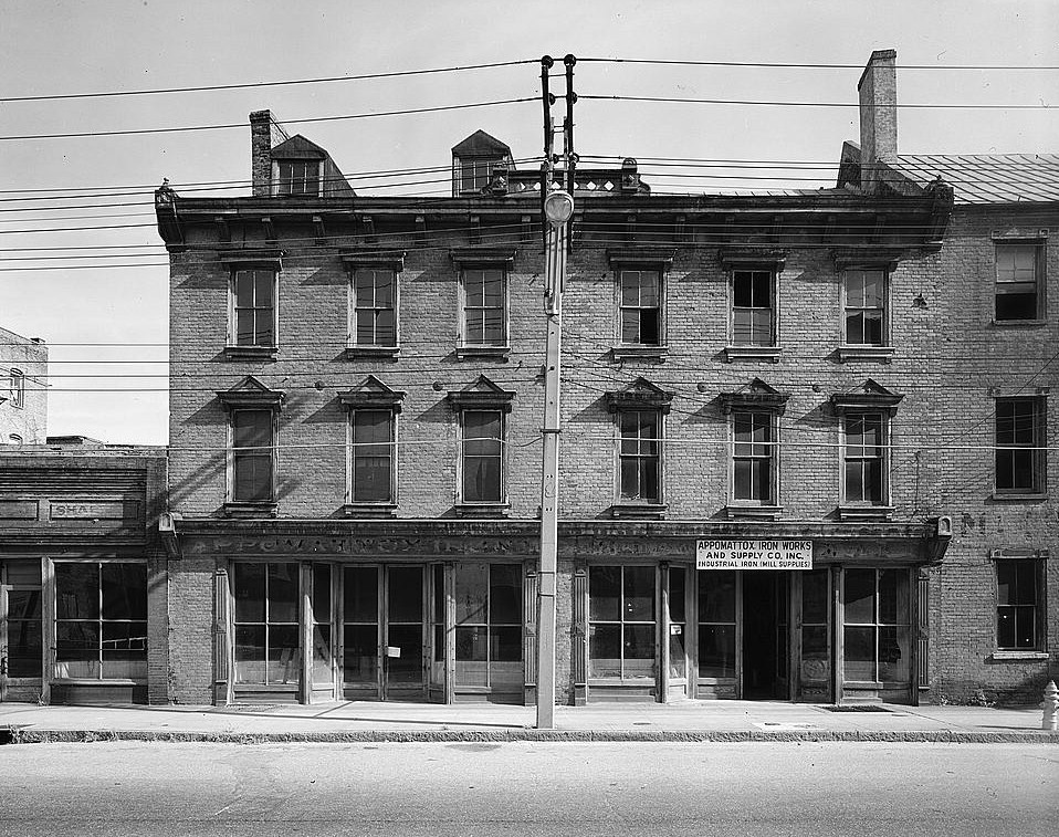 Appomattox Iron Works, 20-28 Old Street, Petersburg city, Virginia. cropped, HAER VA,27-PET,32-4 This image or media file contains material based on a work of a National Park Service employee, created as part of that person's official duties. As a work of the U.S. federal government, such work is in the public domain in the United States. See the NPS website and NPS copyright policy for more information. Creator: U.S. Department of the Interior, National Park Service, Historic American Engineering Record. Survey number HAER VA-25 Source: U.S. Library of Congress, Prints and Photographs Division, "Built in America" Collection. Copyright: "The original measured drawings and most of the photographs and data pages in HABS/HAER/HALS were created for the U.S. Government and are considered to be in the public domain."